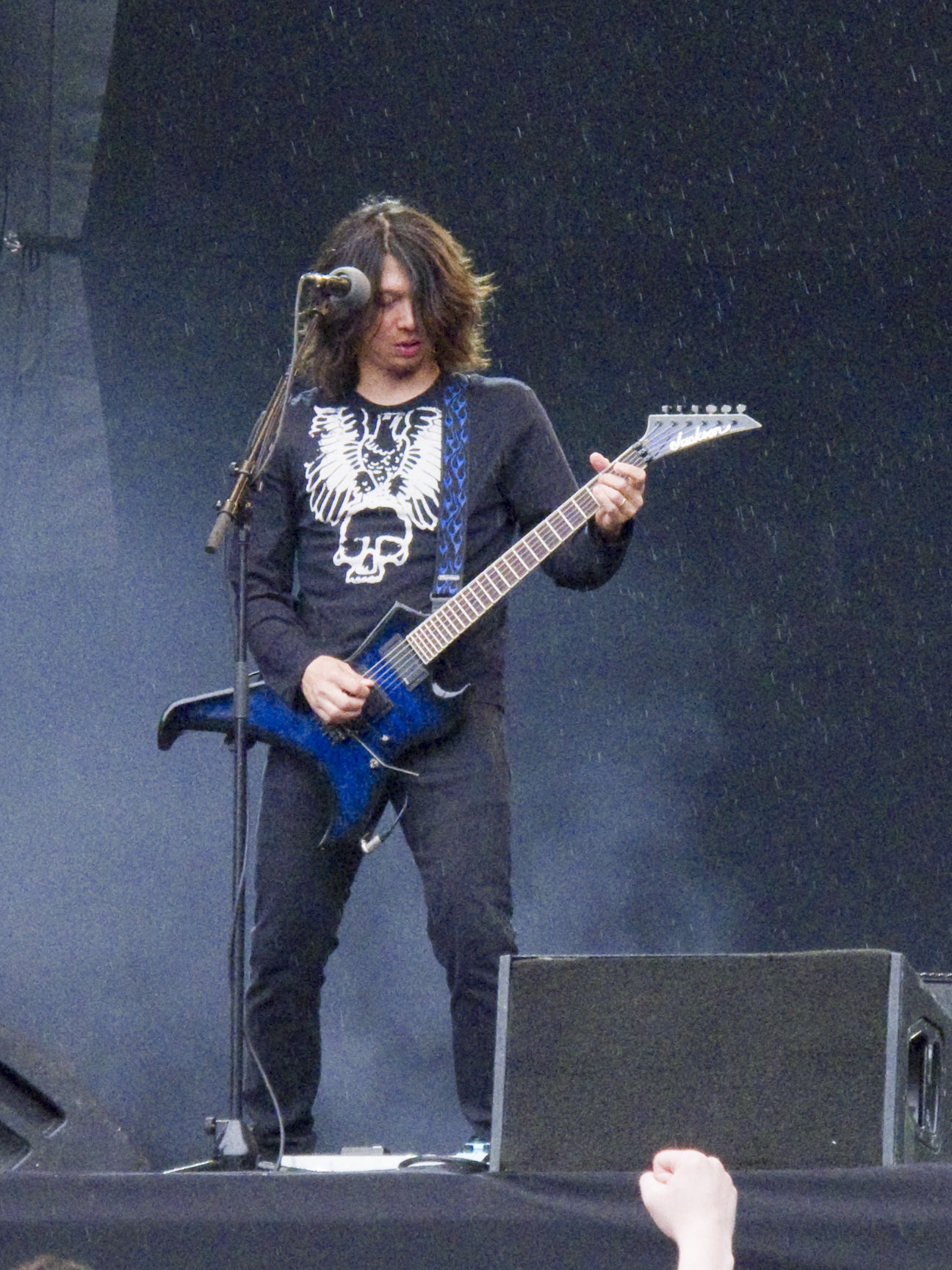 Rob Cavestany with Death Angel playing at Sauna Open Air 2010. Location: Tampere, Finland.